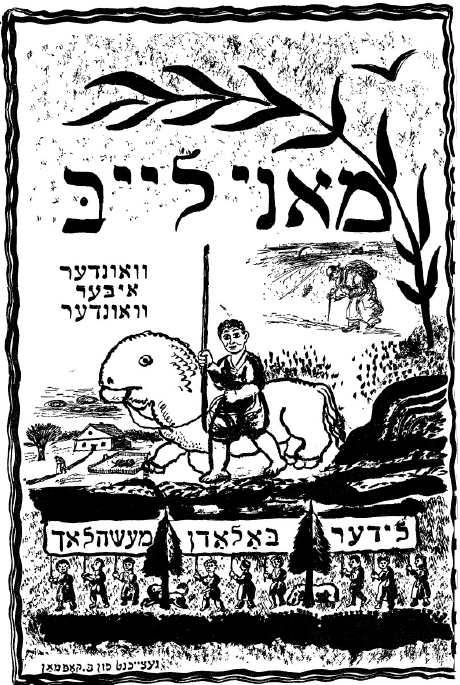 Cover of Vunder iber vunder